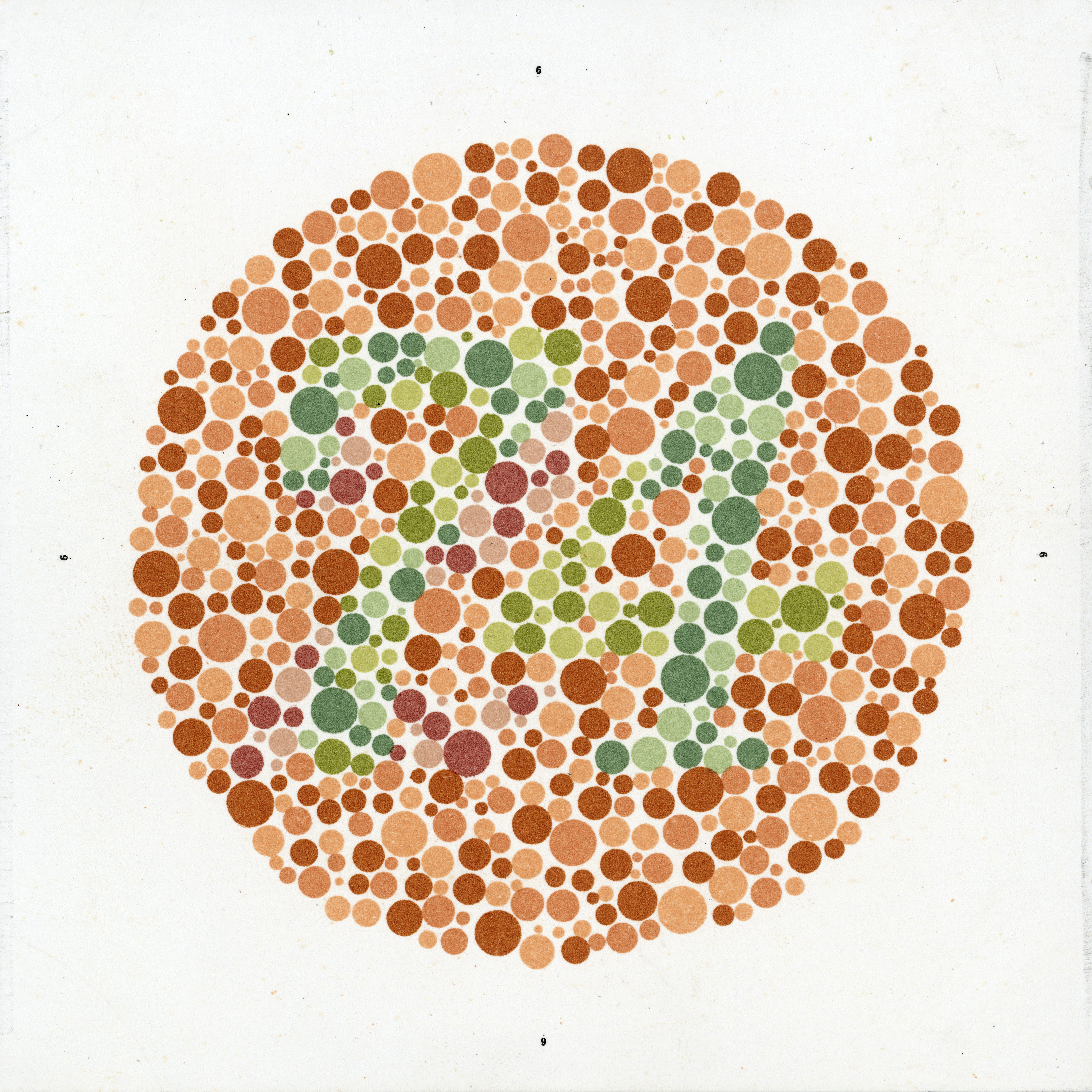 Eight Ishihara charts for testing colour blindness, Europe, 1917-1959 Colour blindness is tested using these eight placards. They are known as Ishihara charts. They are named after their inventor, Japanese ophthalmologist Shinobu Ishihara (1897–1963). Each image consists of closely packed coloured dots and a number. The patient must identify the number or image he or she can see. The type of colour blindness a patient has is identified using the range of charts. There are several types of colour blindness. These range in severity. In dichromatism, there is difficulty seeing one of the three primary colours: red, blue or green. In anomalous trichomatsis, there is reduced sensitivity to certain colours. In the rarer monochromatism, there is no colour vision and the world is seen in white, black and grey shades. Ishihara devised his test in 1917. It is still used. Medical Photographic Library